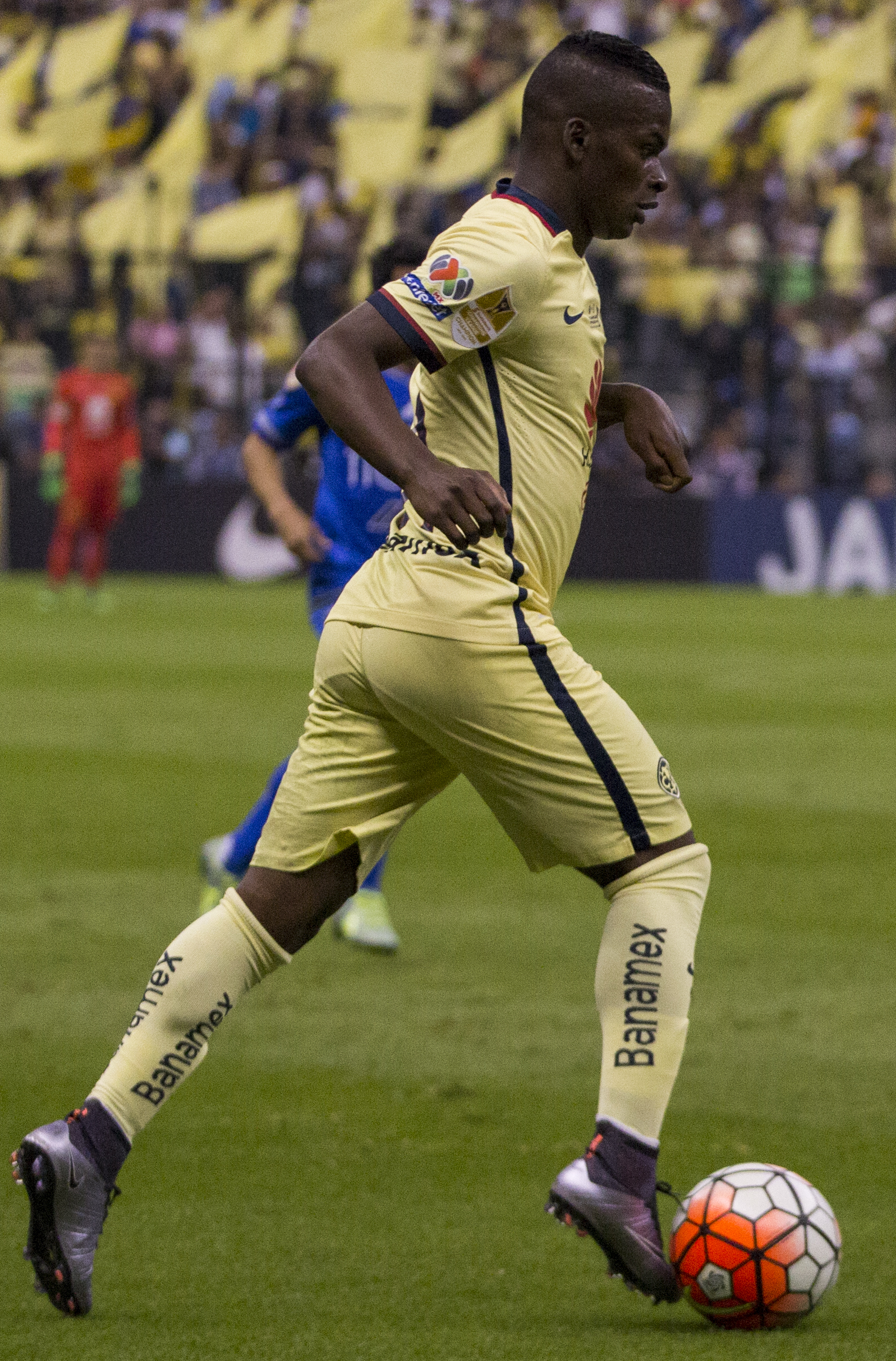 Final CONCACAF 2016